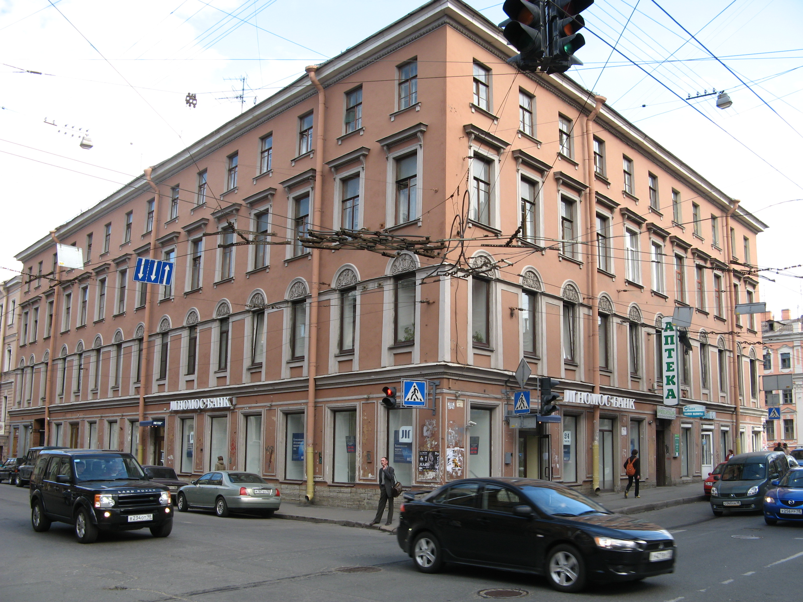 Kazanskaj street, 24 (Saint-Petersburg) - "Chertkov's house"